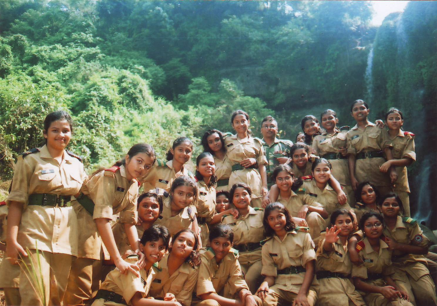 outing